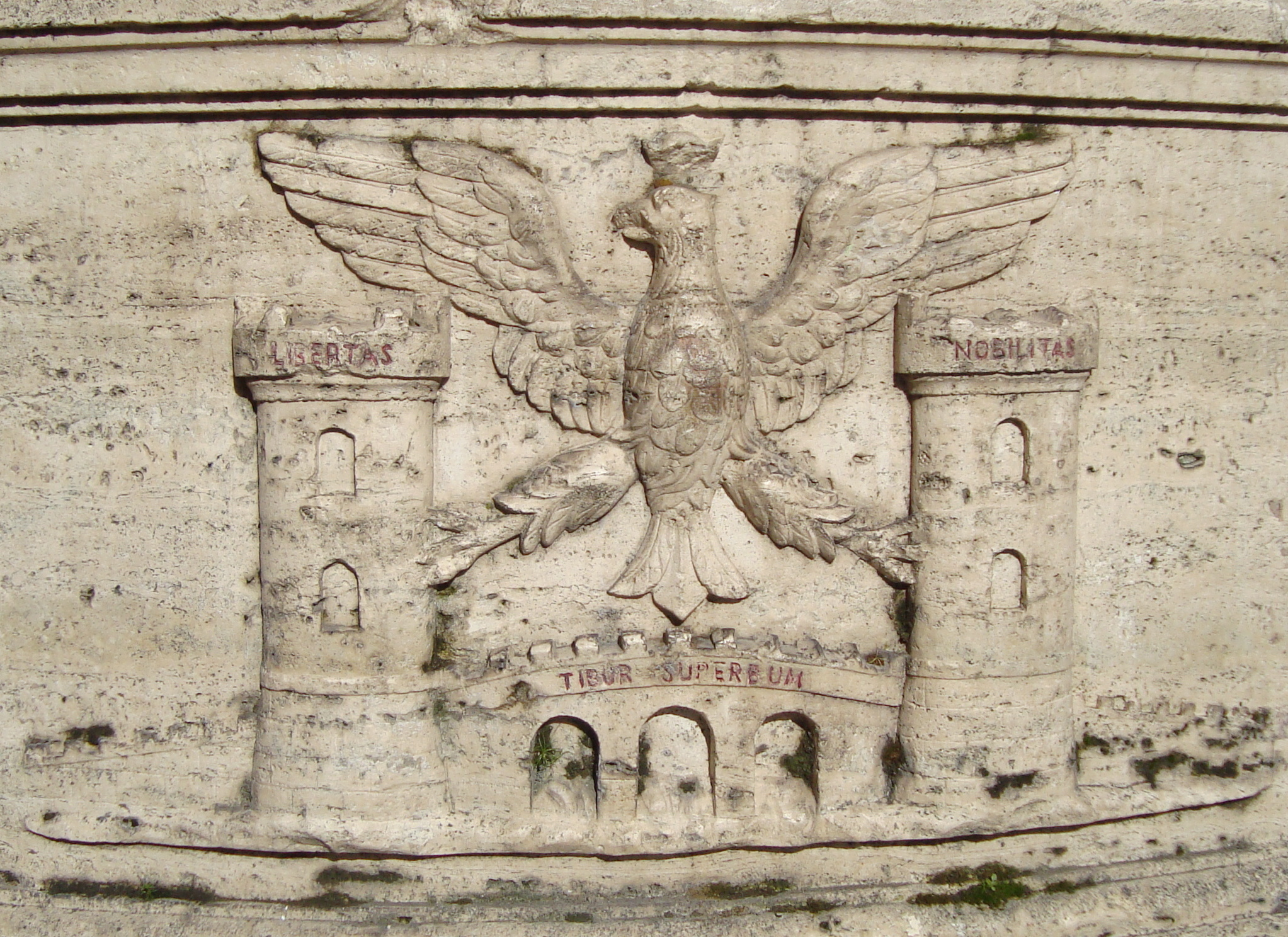 Coats of arm of Tivoli (Tibur Superbum - Libertas and Nobilitas) on the Boccaccinus Foutain (1818)